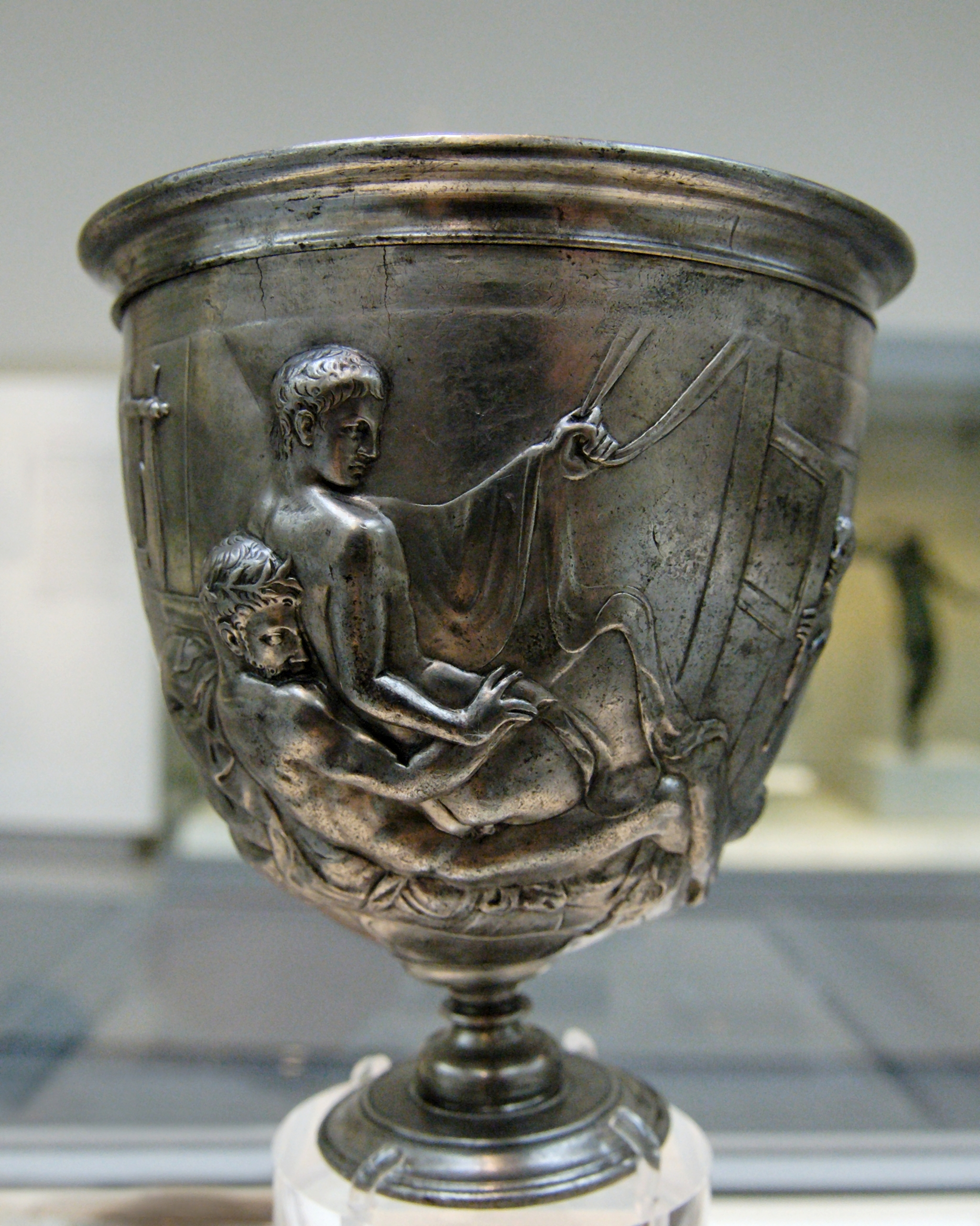 A bearded man making love with a beardless youth, side A of the so-called Warren Cup. Silver, Roman artwork, middle of the 1st century AD. Said to be from Bittir (ancient Bethther), near Jerusalem.